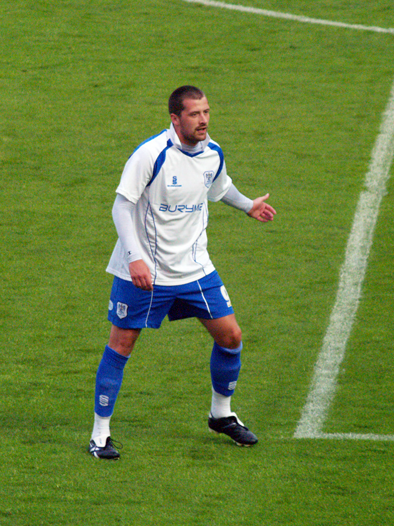 Bury FC forward Danny Carlton during the Bury vs. Everton friendly game at Gigg Lane, home of Bury Football Club. Friday 10th July 2009